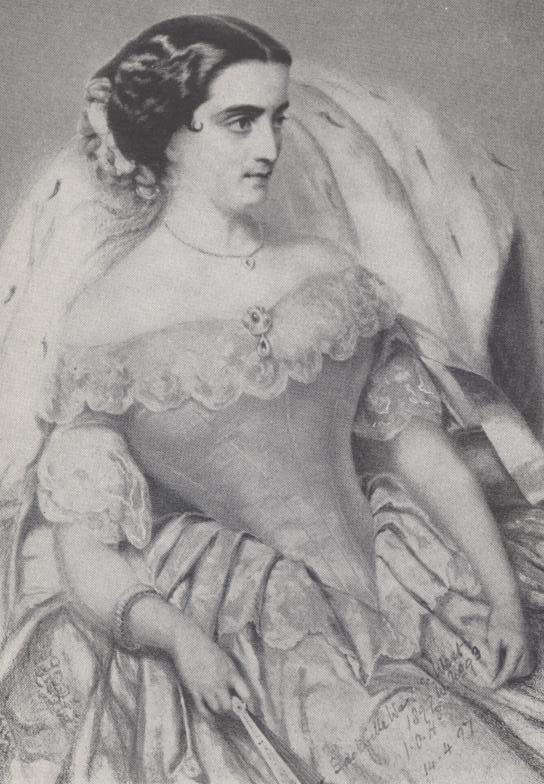 Pepita de Oliva (1830-1871)